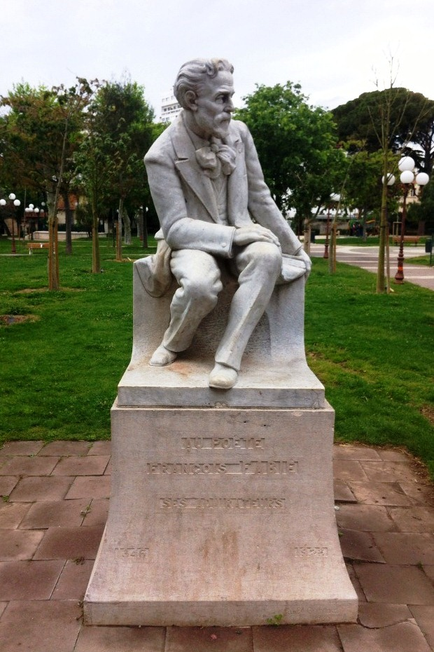 Statue of the french poet François Fabié in the main entrance of jardin Alexandre Ier.